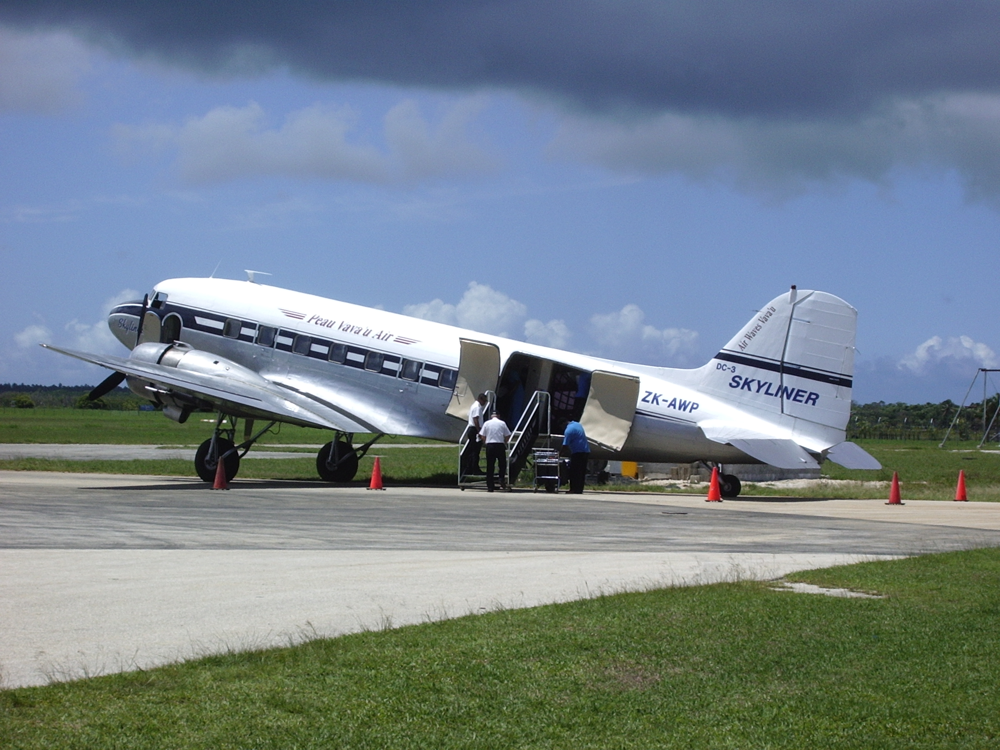 Peau Vava'u prop plane on the tarmac at Nuku'alofa, Tongatapu, Tonga